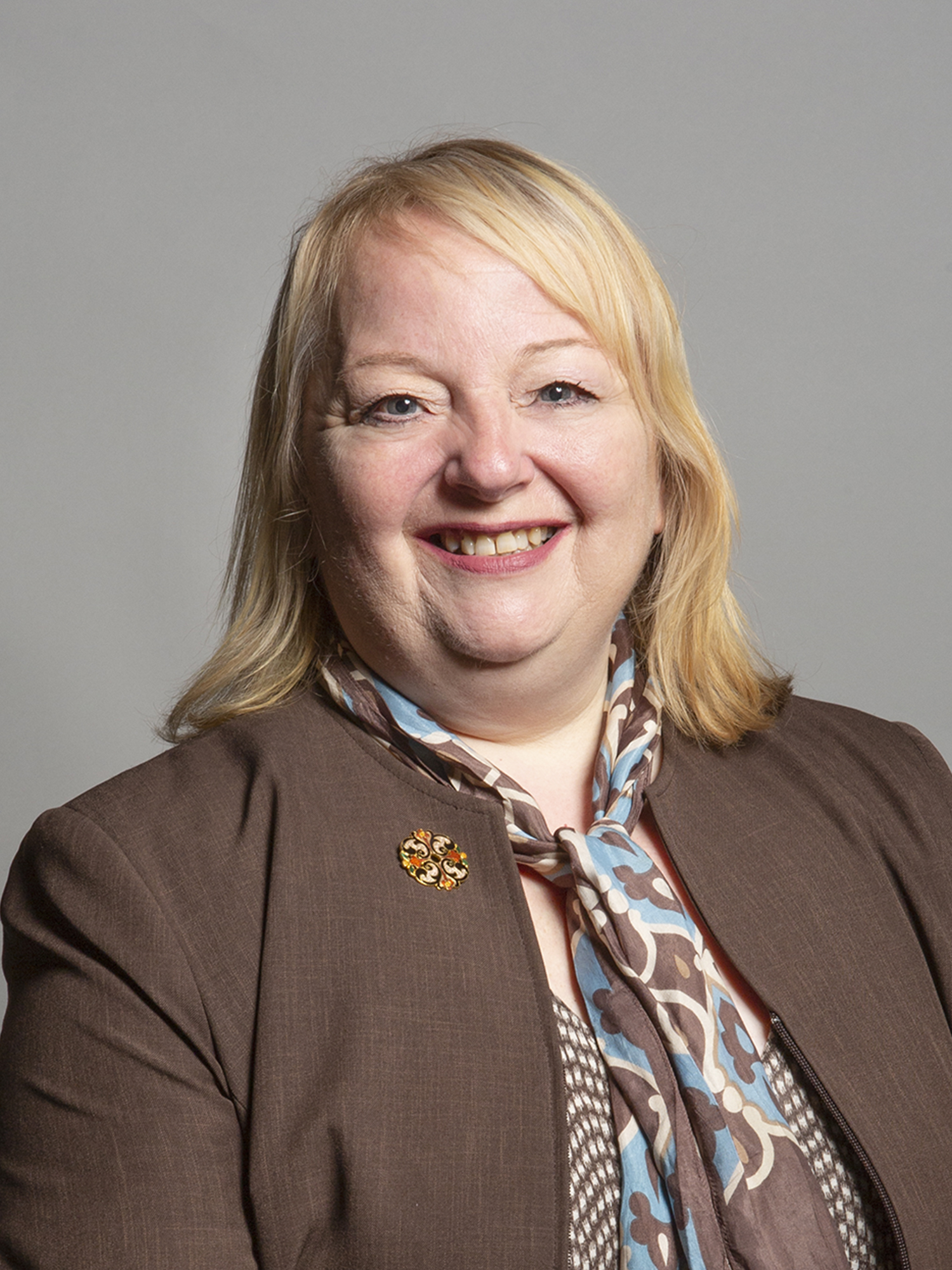 Official portrait of Anne McLaughlin MP 3×4 portrait of Anne McLaughlin